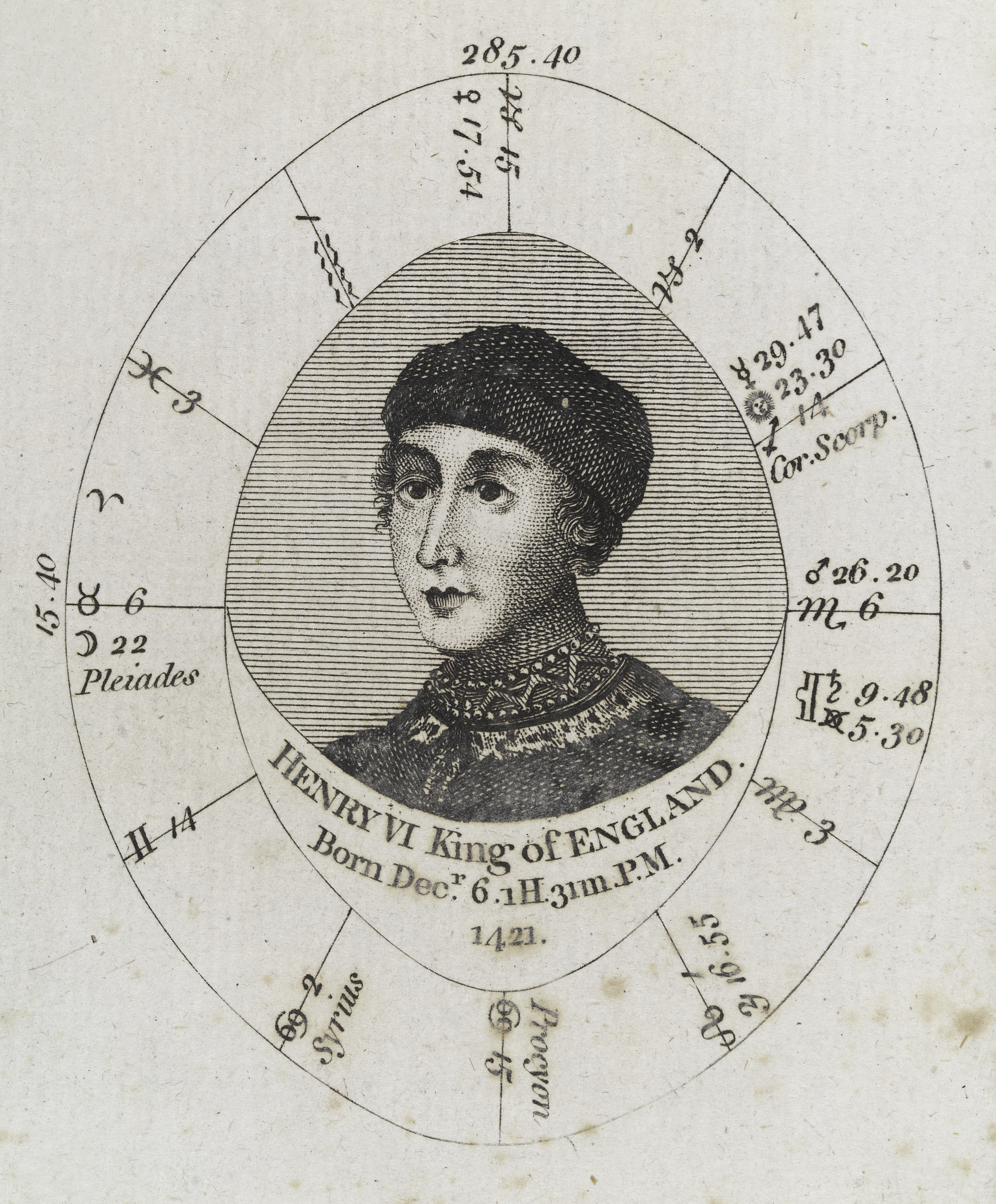 Astrological birth chart for Henry VI, King of England. He lost the 'Wars of the Roses' in the fifteenth century and was ultimately put to death by his successor, Edward IV, in 1471. Rare Books Keywords: Wars of the Roses; Insanity